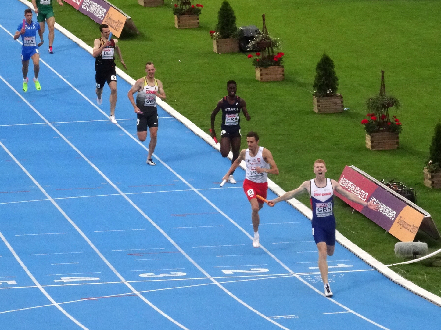 2017 European Athletics U23 Championships, 4x400m relay men final